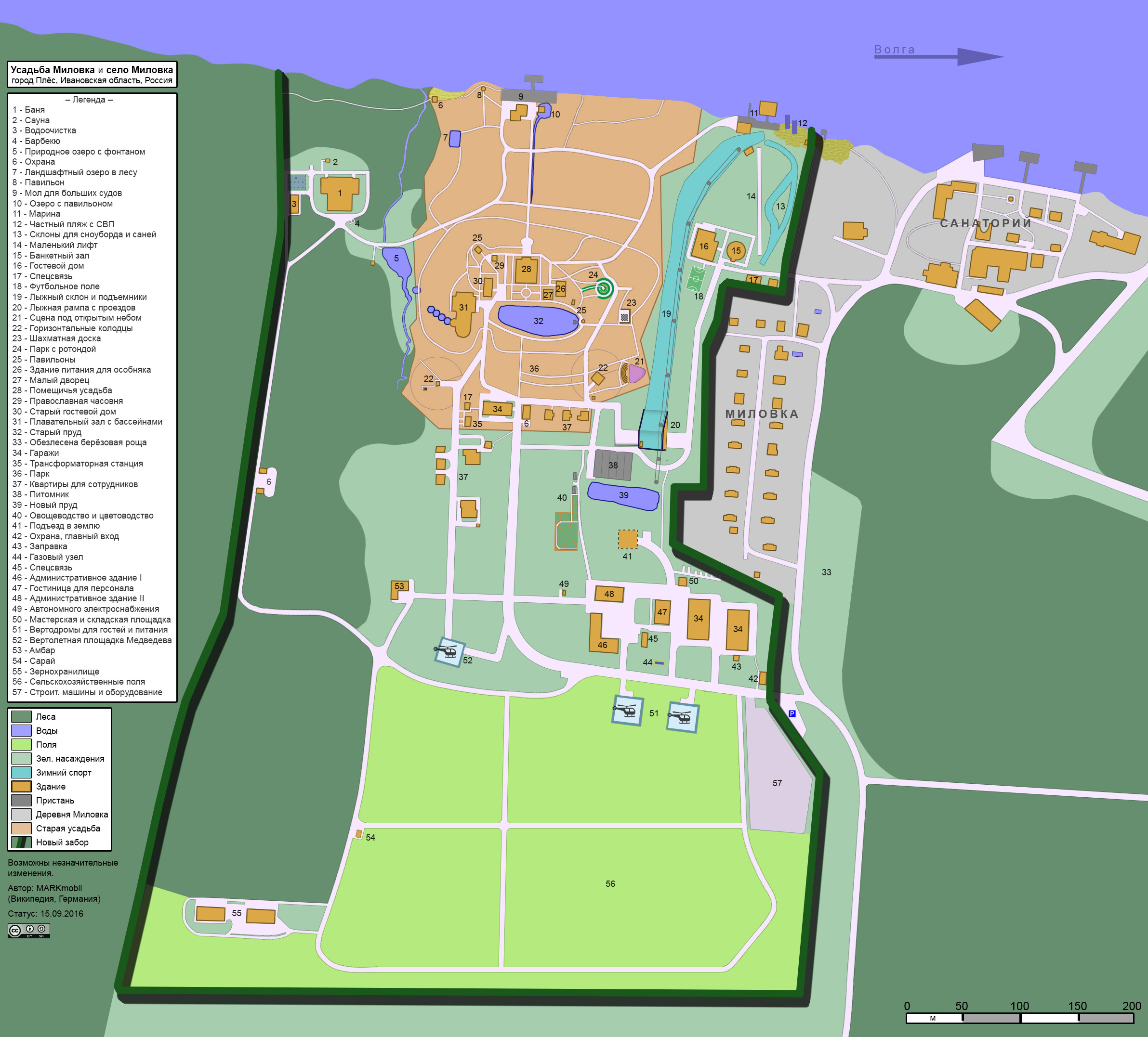 Map: Manor Milovka and village Milovka (city Plyos, Ivanovskaya oblast, Russia) Russian version.